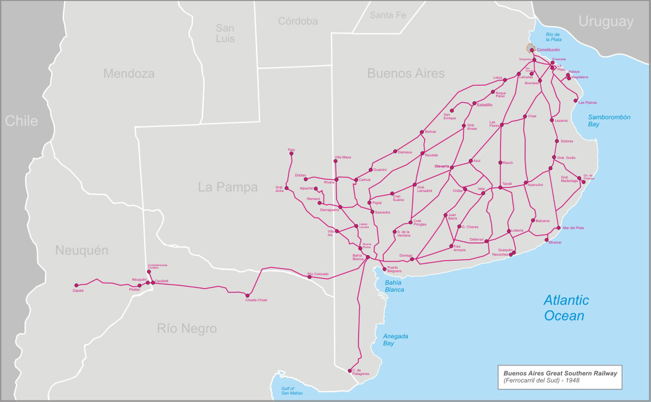 Map of the Great Southern Railway network in Argentina. The company operated until 1948 when its lines were took over by the General Roca Railway.